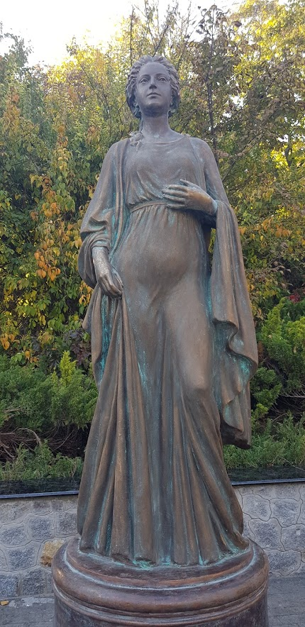 this is a statue of contes Sofia in Uman Ukraine